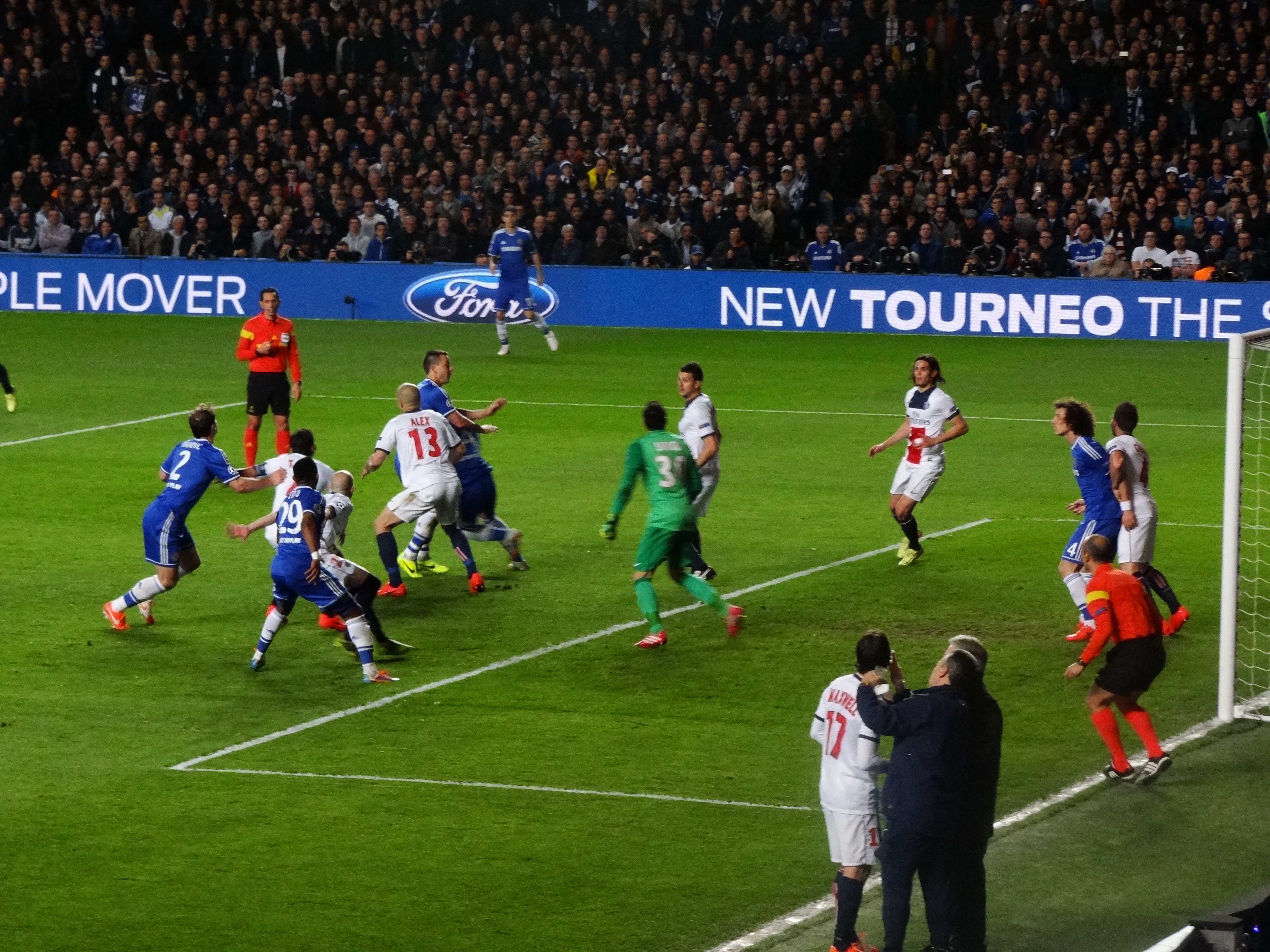 Chelsea FC v Paris Saint-Germain, 8 April 2014, Stamford Bridge, London.